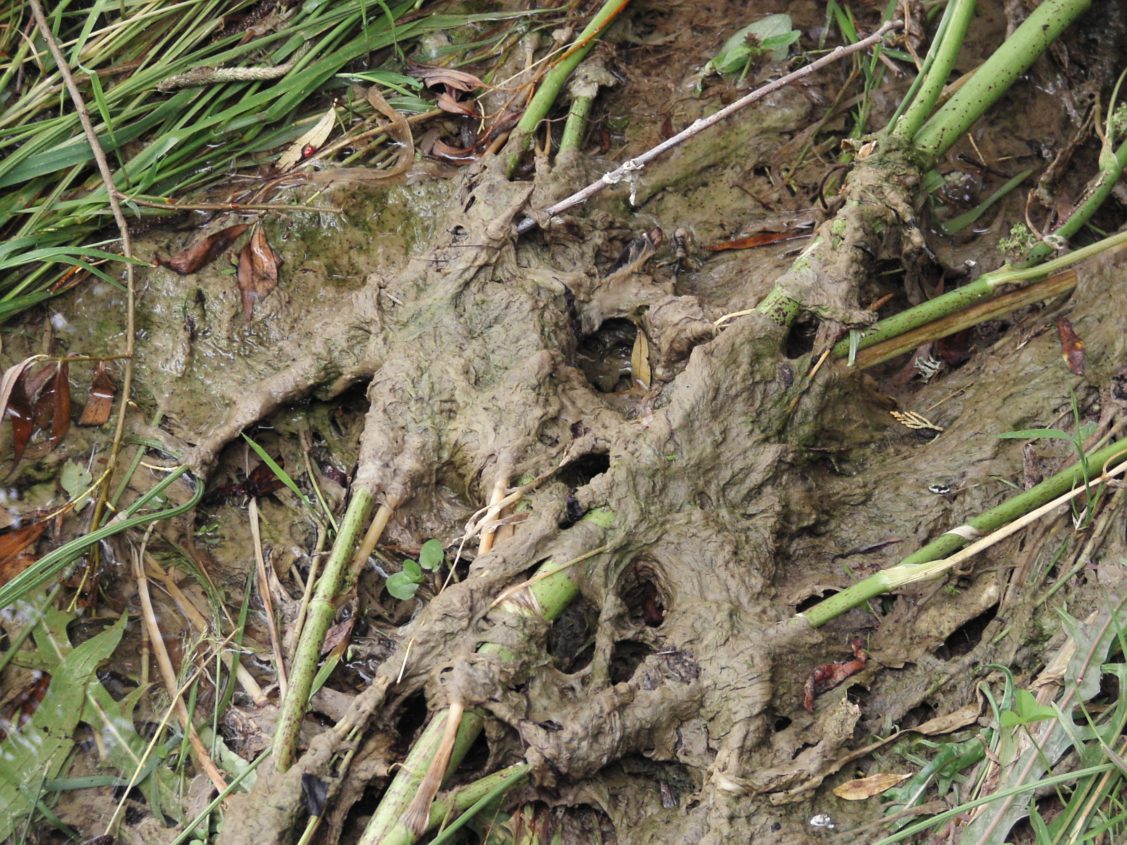 Photograph of dead dry didymo beside the Mararoa River in the Southland Region of New Zealand.